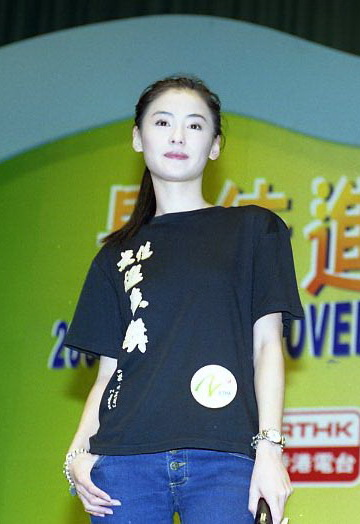 Cecilia Cheung